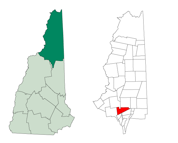 Map of a municipality in Coos County, New Hampshire